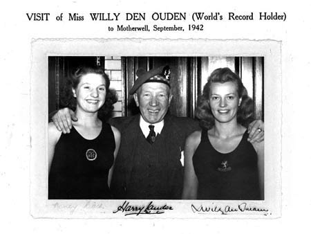 Nancy Riach (1929-1947), during a visit of Willy den Ouden to Motherwell.